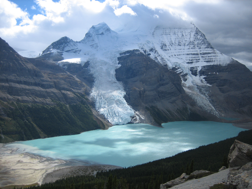 Berg Lake from the Mumm Basin Trail, 2005. Taken by Olivier George.